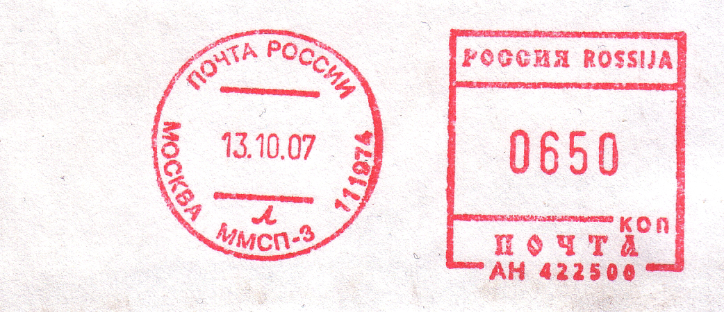 Franking of modern Russia, 2007